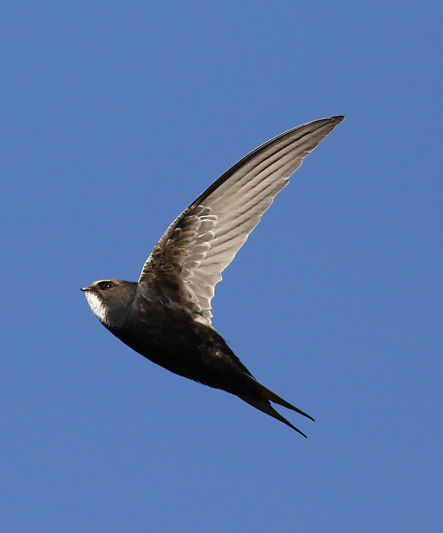 White-rumped swift, Apus caffer, at Suikerbosrand Nature Reserve, Gauteng, South Africa